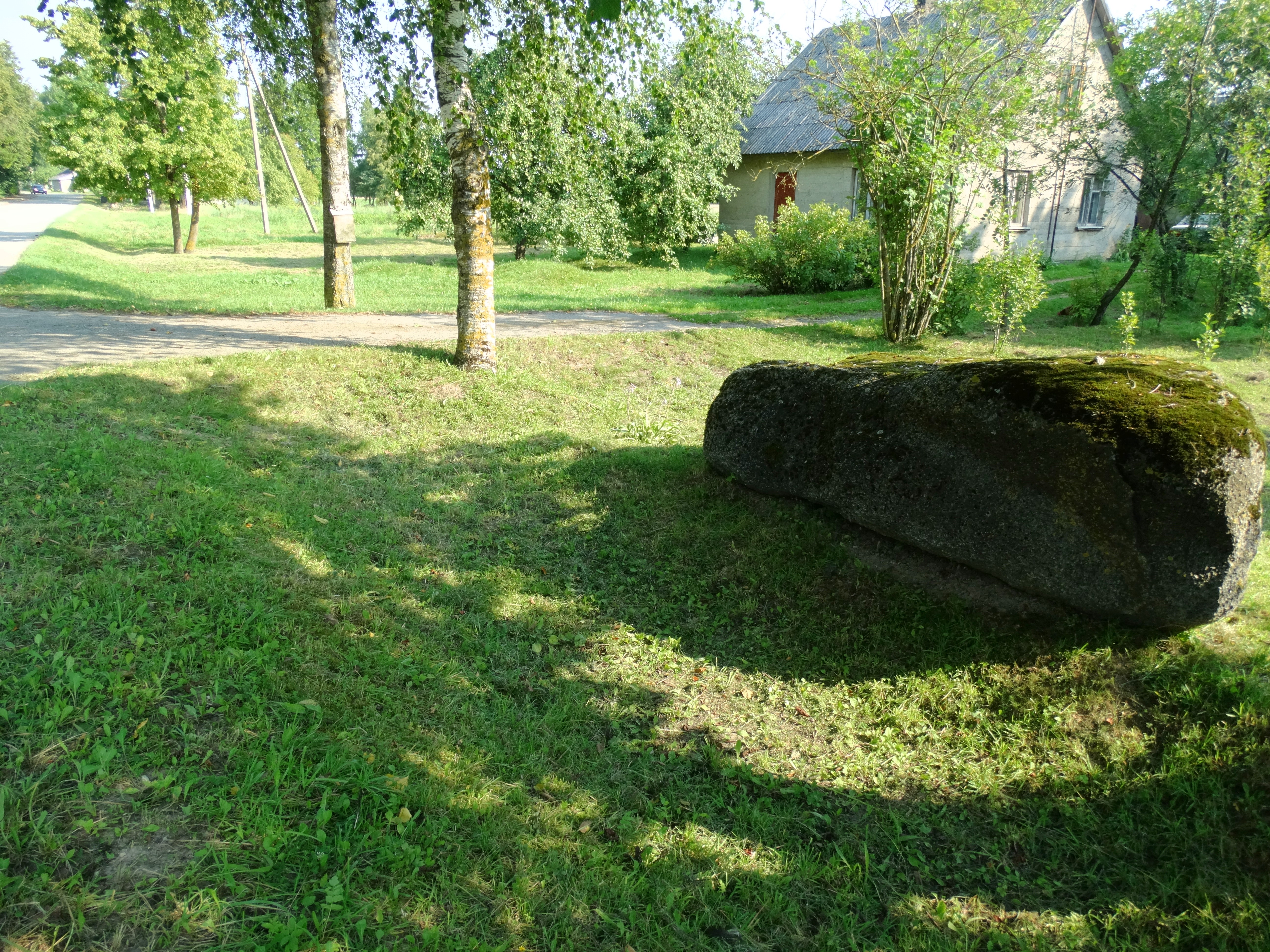 Endriškiai, Joniškis District, Lithuania